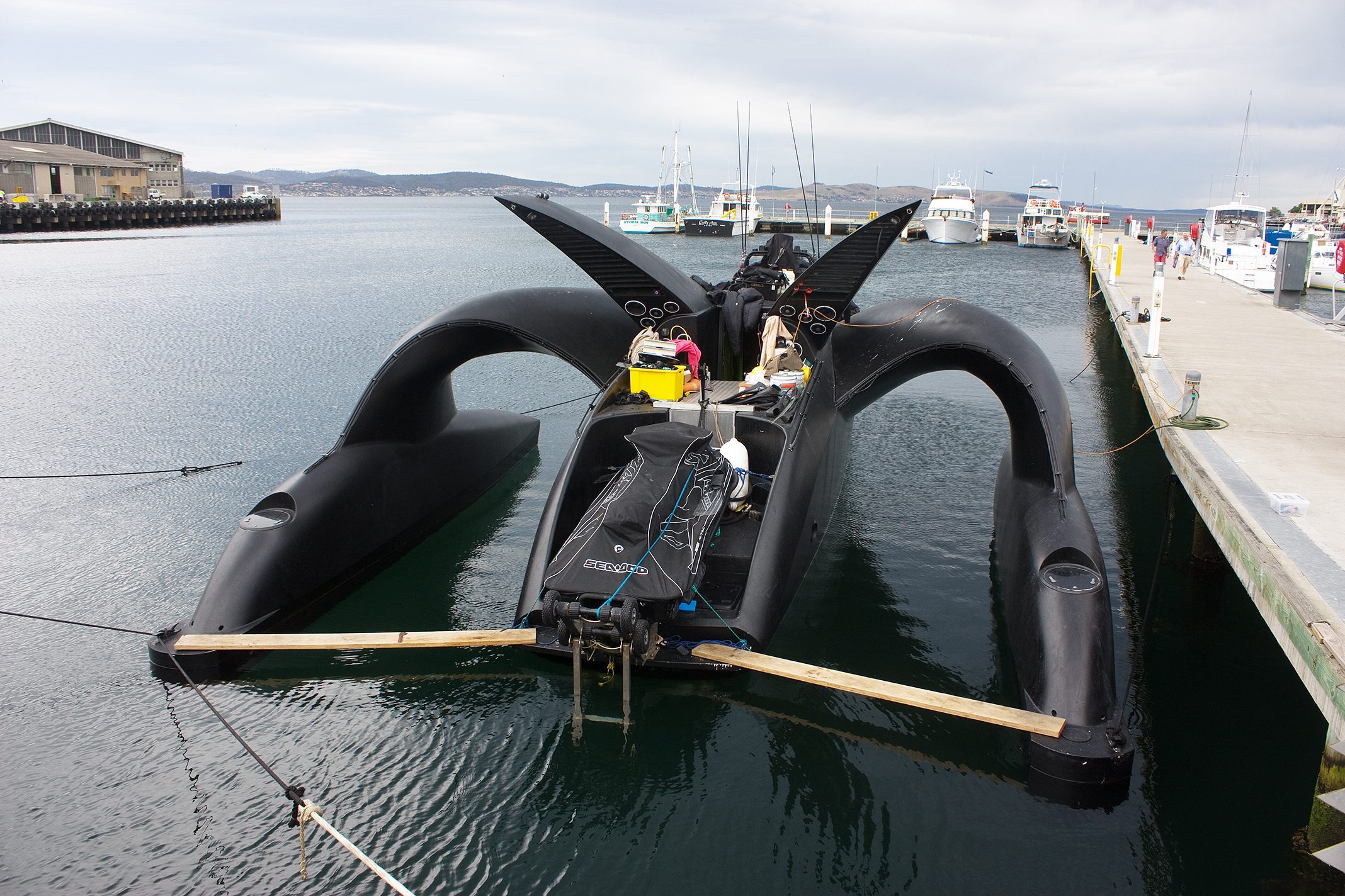 Ady Gil, Hobart, Tasmania, Australia